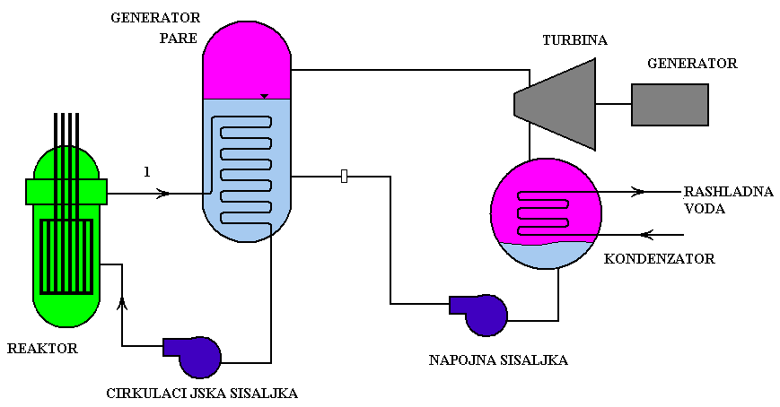 design of a nuclear plant steam retard